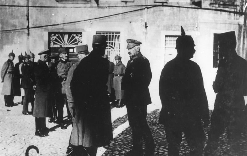 This appears to show Otto von Below.